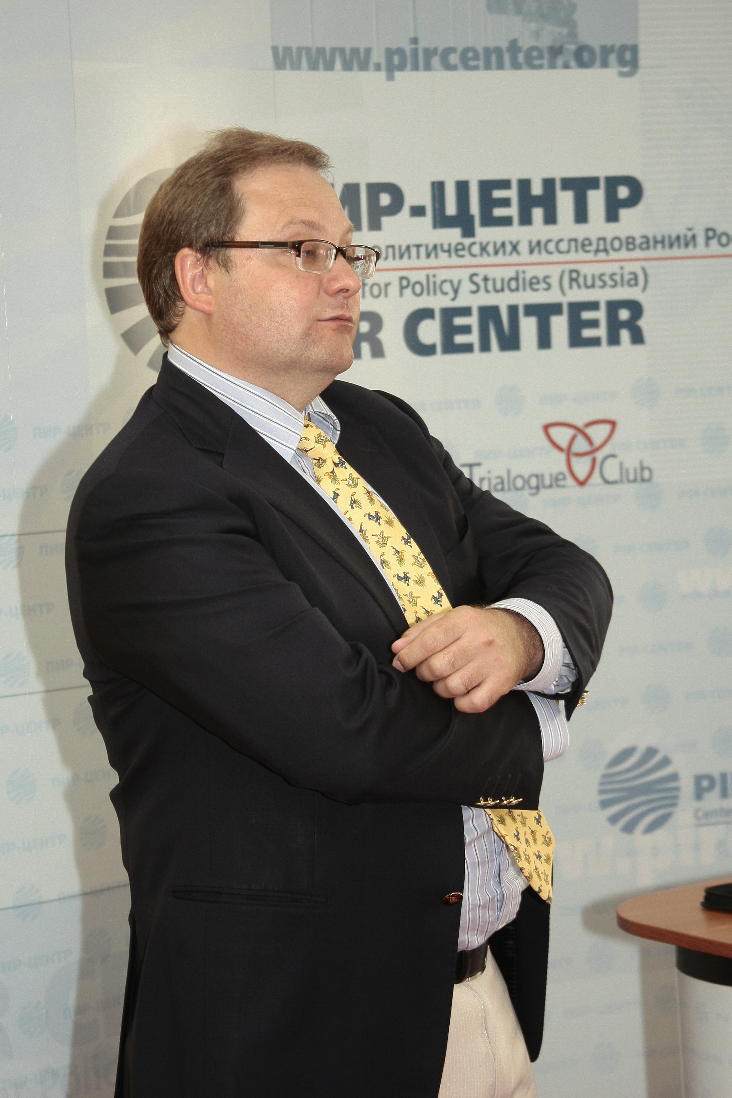 PIR Center's President Vladimir Orlov, 2011